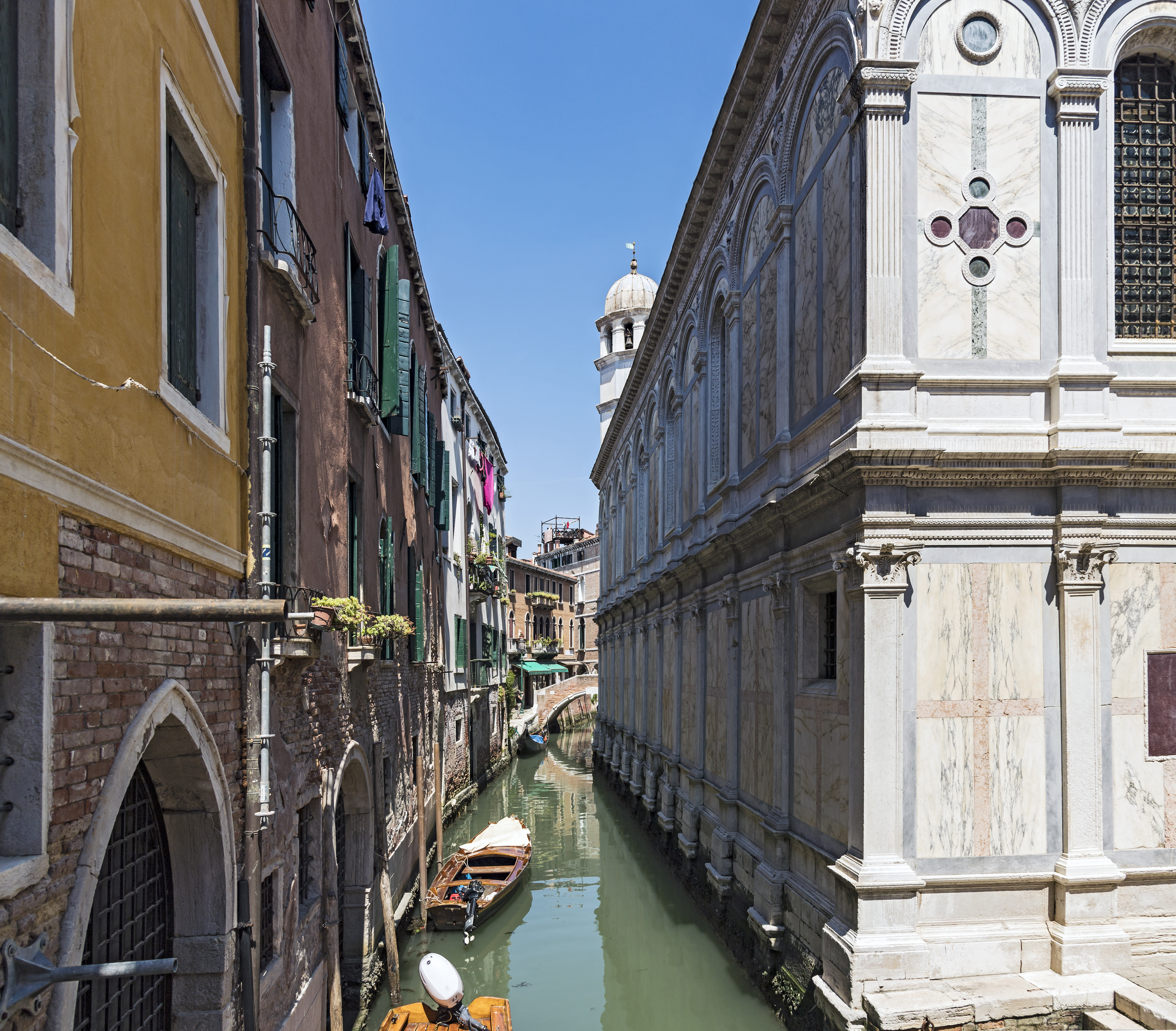 Rio dei Miracoli in Venice. The rio view from ponte dei Miracoli to the north.